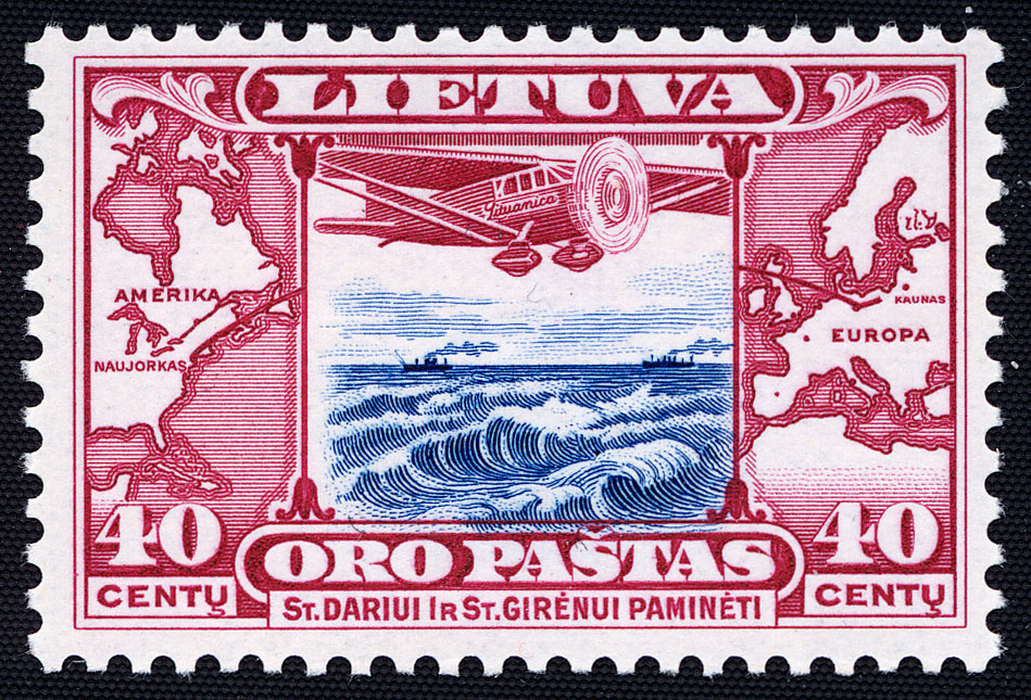 Darius and Girėnas flight from USA to Lithuania. In Memoria